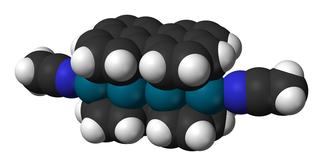 Space-filling model of a perylene-tetrapalladium sandwich complex, the dication [Pd4(µ−η2:η2:η2:η2-perylene)2(CH3CN)2]2+ from [Pd4(µ−η2:η2:η2:η2-perylene)2(CH3CN)2][BArf]2. Molecular model based on X-ray crystallographic data from Tetsuro Murahashi, Tomohito Uemura, and Hideo Kurosawa (2003). "Perylene-Tetrapalladium Sandwich Complexes". J. Am. Chem. Soc. 125 (28): 8436-8437 (Communication). Image generated in Accelrys DS Visualizer.